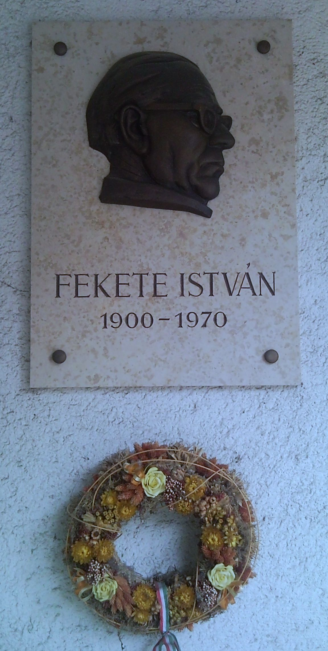 Plaque of István Fekete, Budapest District XII, Orbánhegyi Street No 7